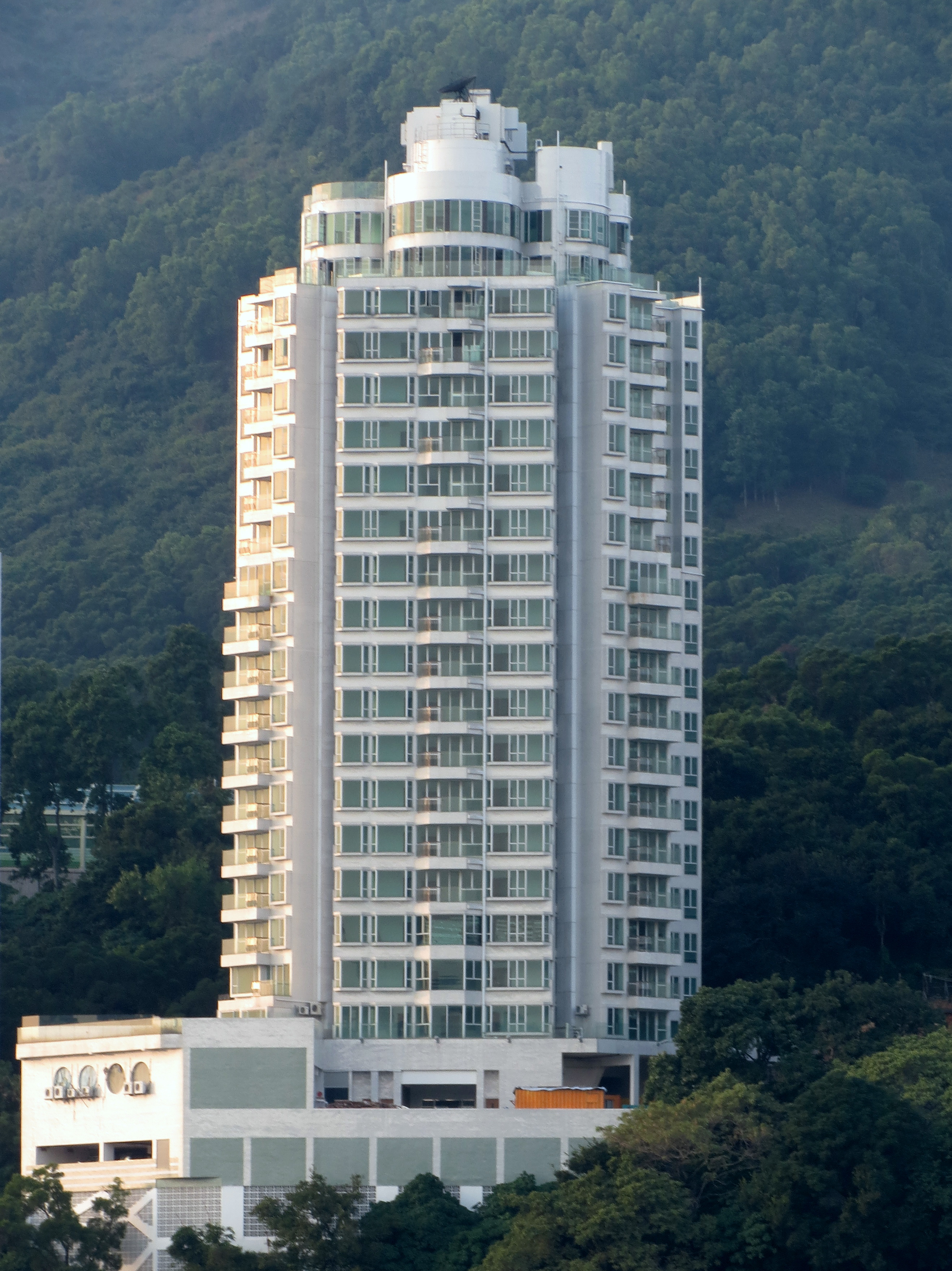 One Kowloon Peak, Ting Kau, Tsuen Wan, New Territories, Hong Kong.